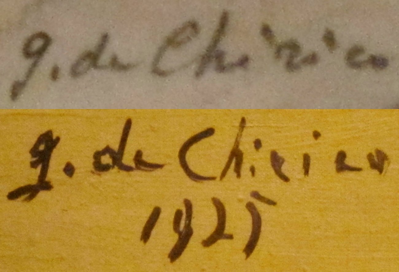 Signatures of Giorgio de Chirico from 1920-22 (top) and 1925 (bottom)